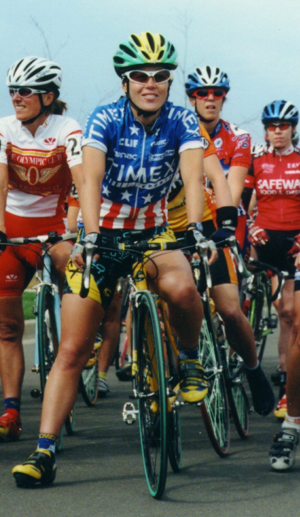 Mari Holden, wearing the "stars and stripes jersey" emblematic of being the then current U.S. National road race champion, lines up at the start of the Greenhill Road Race (2001 Tour of Willamette). Holden would go on to finish in first place (overall GC) in the Tour.